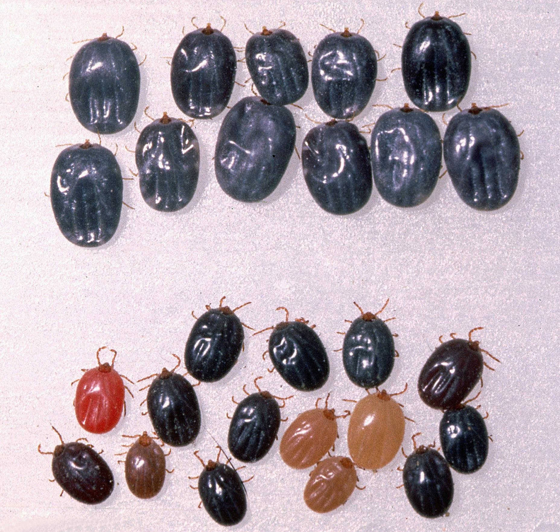 Top rows are engorged nymphs of Rhipicephalus appendiculatus ticks from feeding on a cow without acquired immunity to these ticks; bottom rows are nymphs of same species that have fed on a cow with acquired immunity to these ticks.